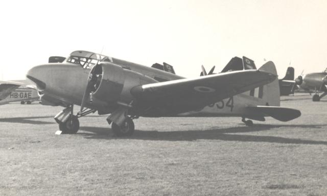 Airspeed AS.10 Oxford HM954 of RAF Marham station flight at Blackbushe